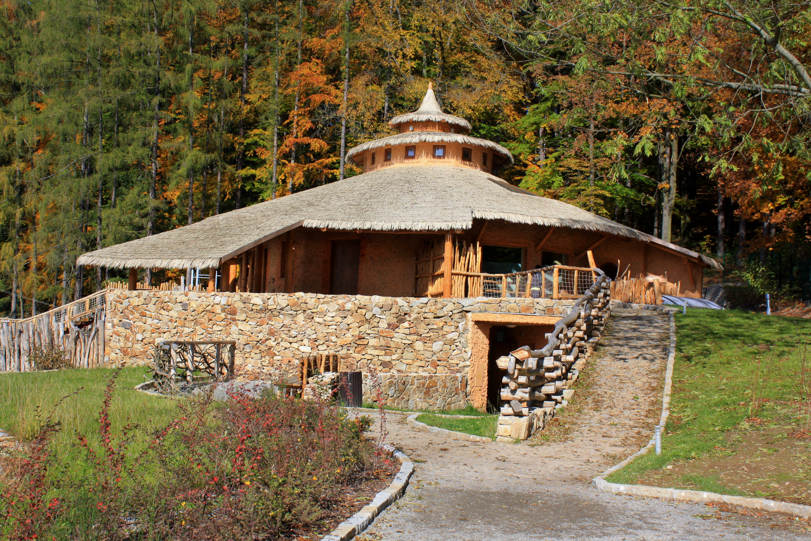 African Savannah house in Zoo Jihlava, Czech Republic